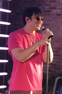 Joji Performing Live in 2018